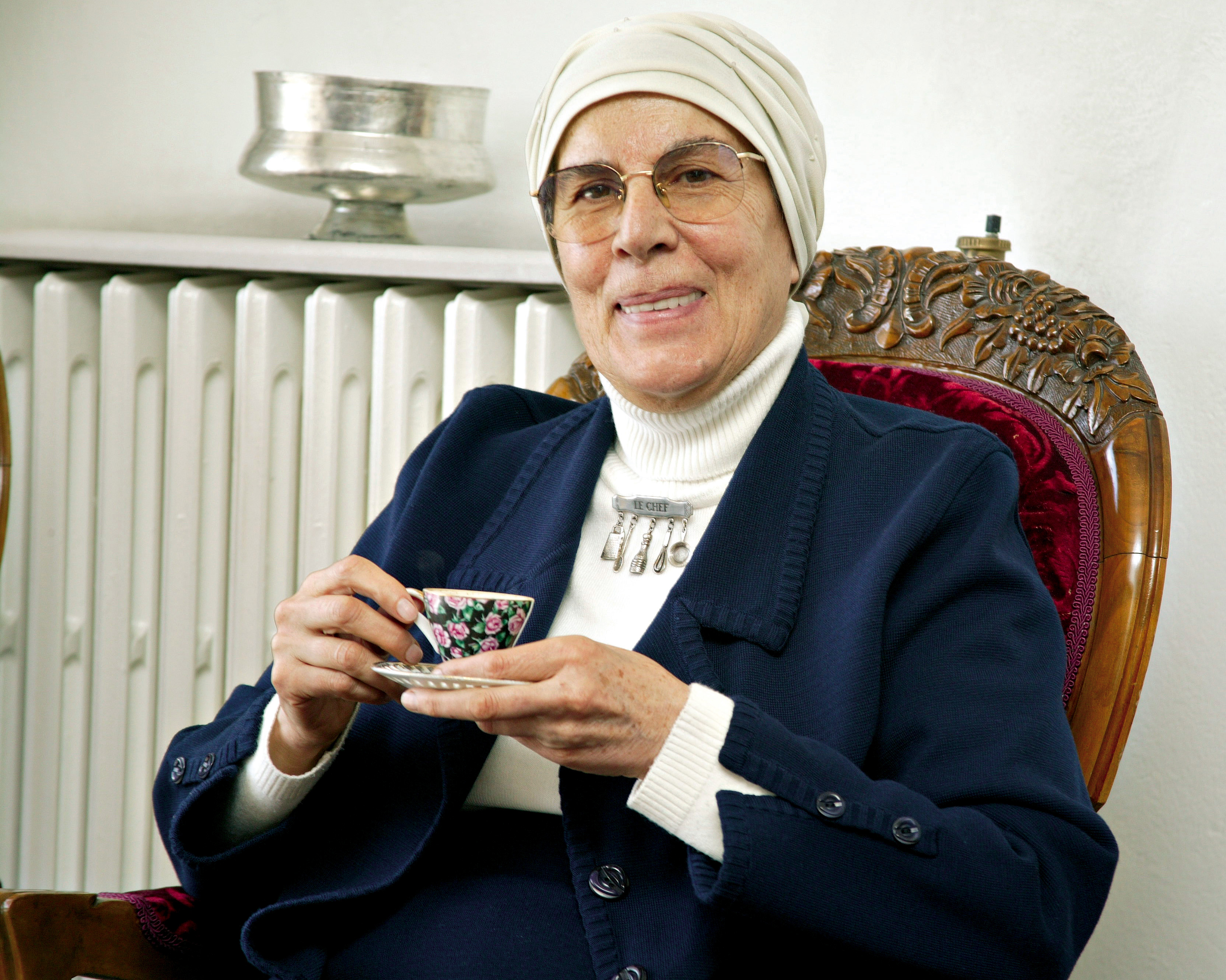 Turkish food culture and researcher, writer Nevin Halici's photograph-2007.